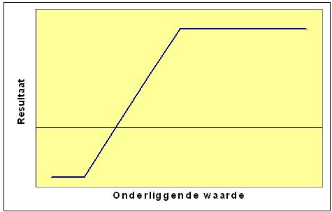 Callspread options graph, derivatives